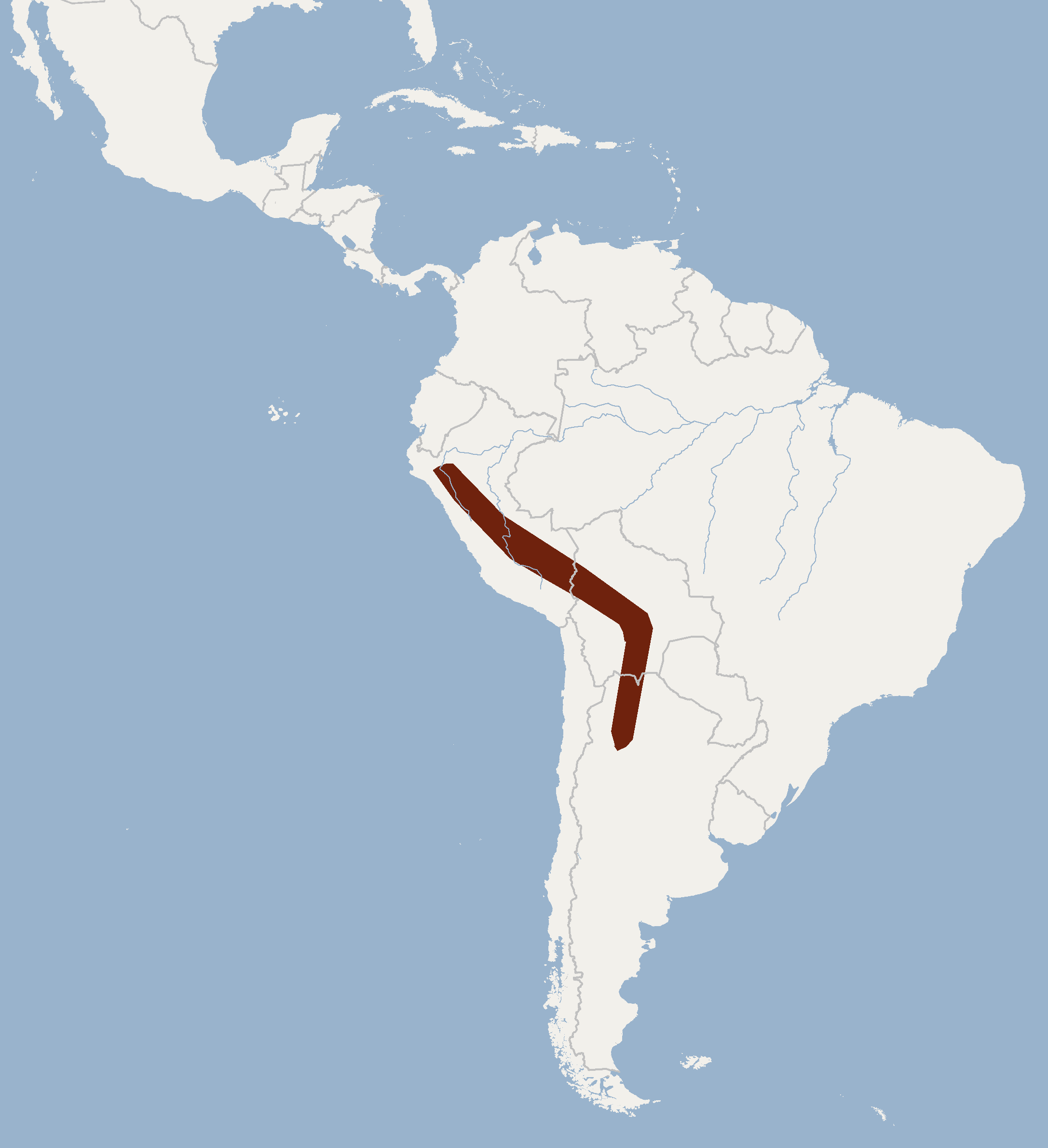 According to Gardner, 2008